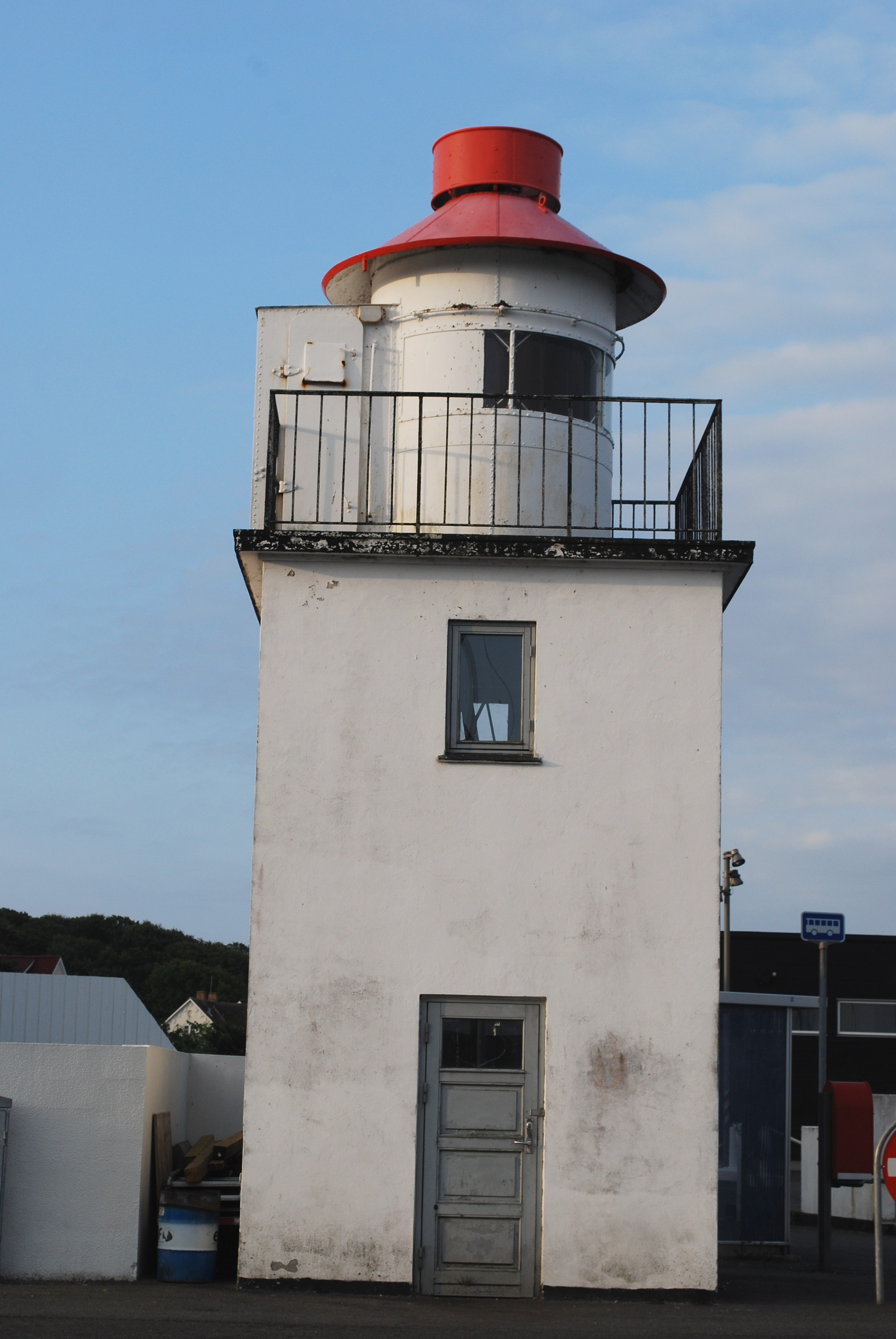 Lighthouse Lohals - Langeland - Denmark